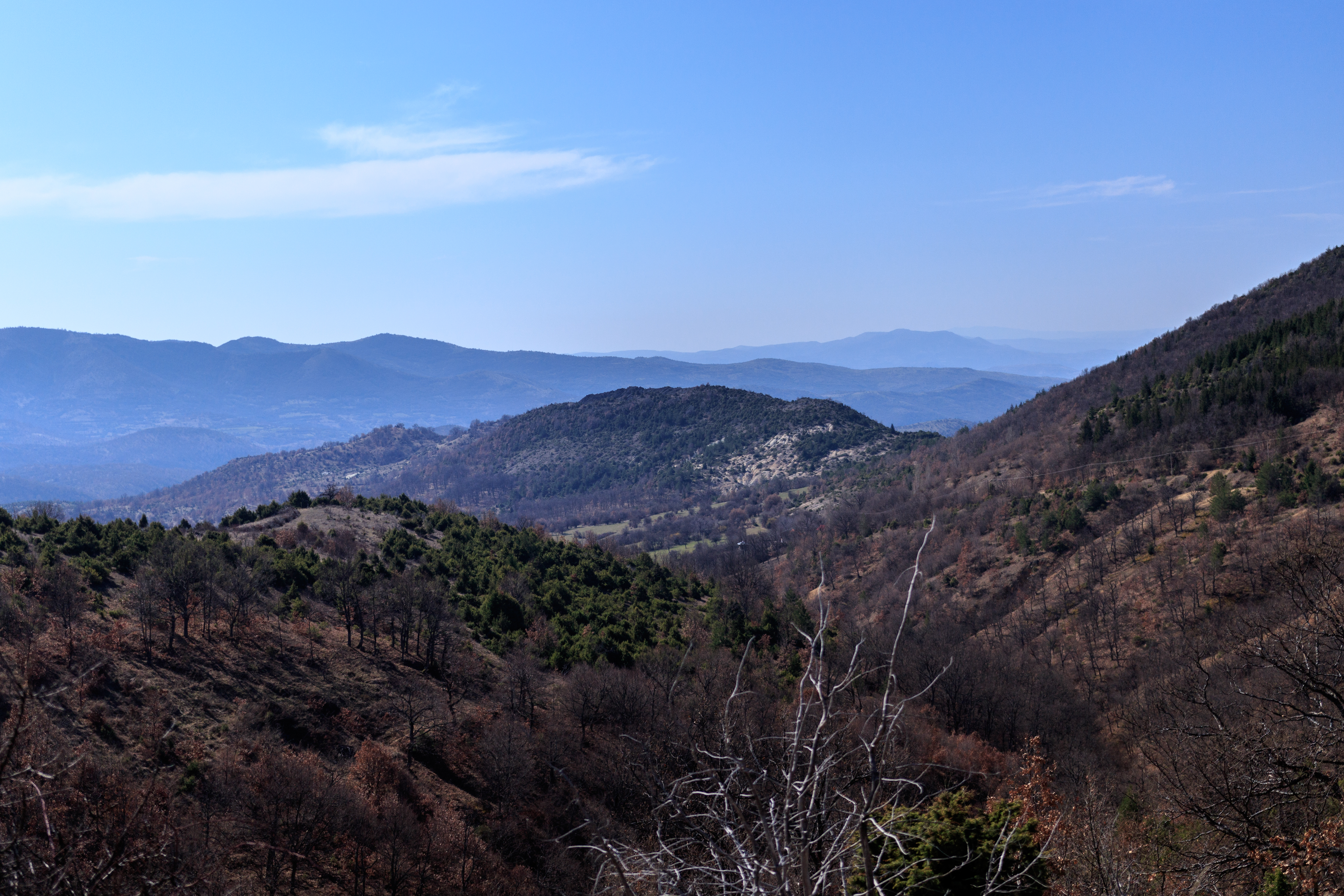 Landscape in Kozjačija Region, Macedonia